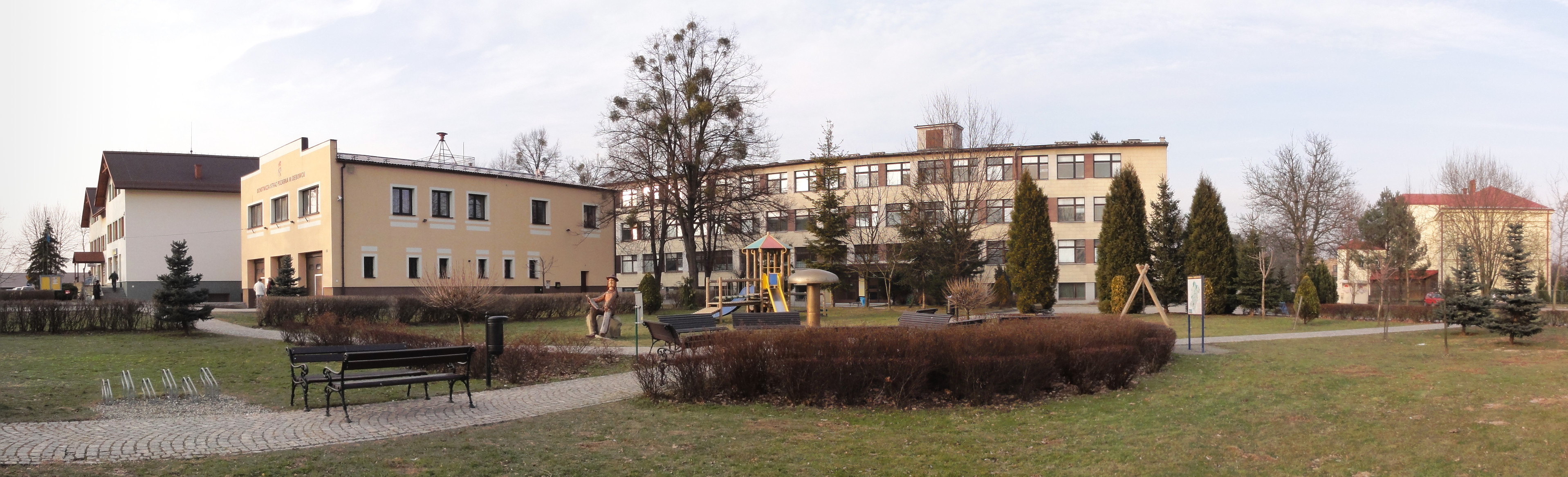 Dębowiec centre